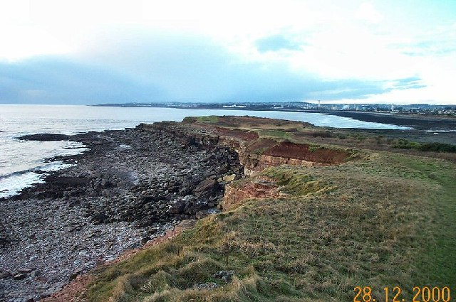 Sully Island. The west view taken from on top of this small island. The rock strata are gently inclining. The water is part of the Bristol Channel and is pretty muddy! In the distance lies Barry.